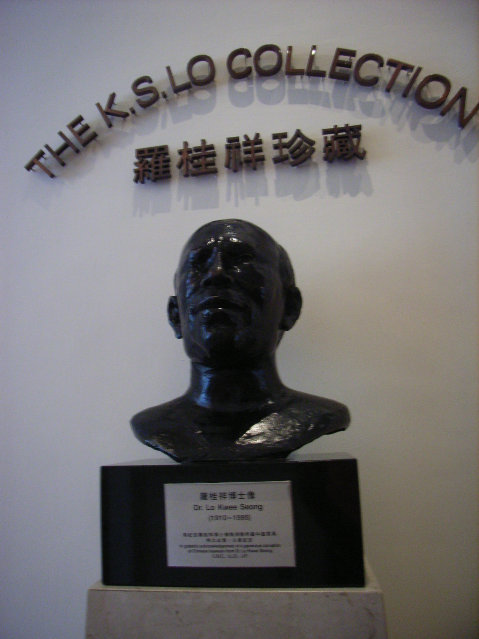 香港茶具文物館 茶具文物收藏家 羅桂祥 Mr SK Lo in the Flagstaff House Museum of Tea Ware, Hong Kong